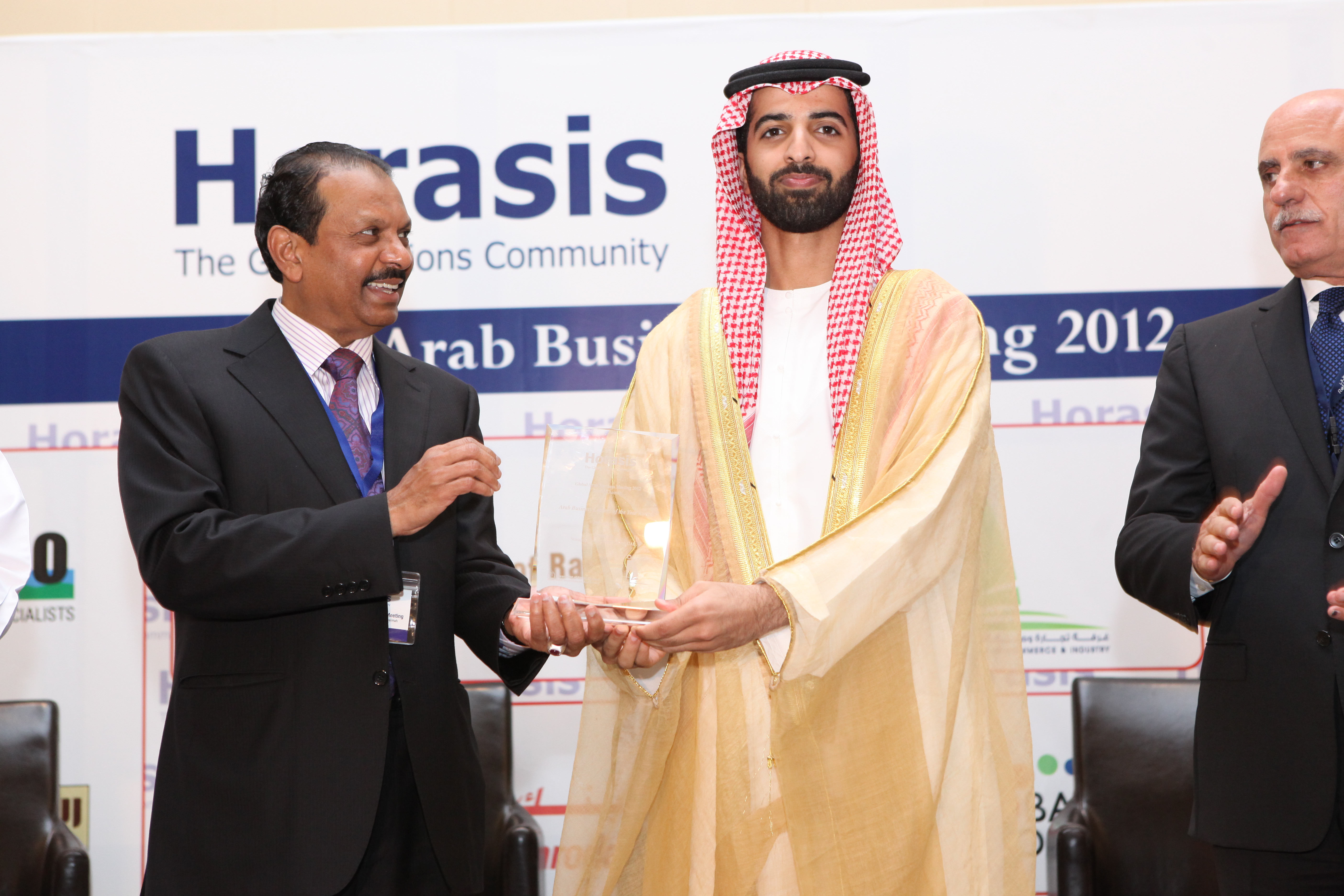 Horasis Global Arab Business Meeting 2012